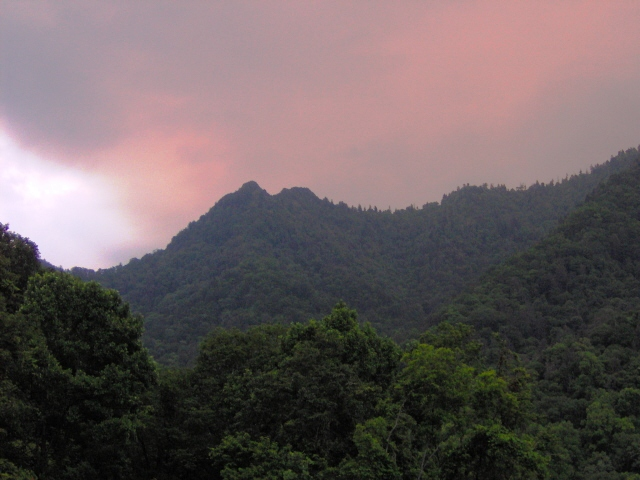 Chimney Tops in the Great Smoky Mountains of East Tennessee, looking south from Newfound Gap Road (US-441). The elevation of the Chimney Tops is approximately 4,800 feet/1,463 meters.